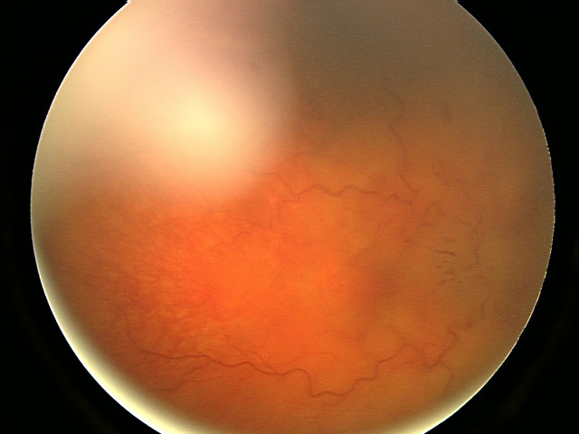 Fundal photograph showing severe papilloedema in the right eye. Bansal et al. Journal of Medical Case Reports 2008 2:86